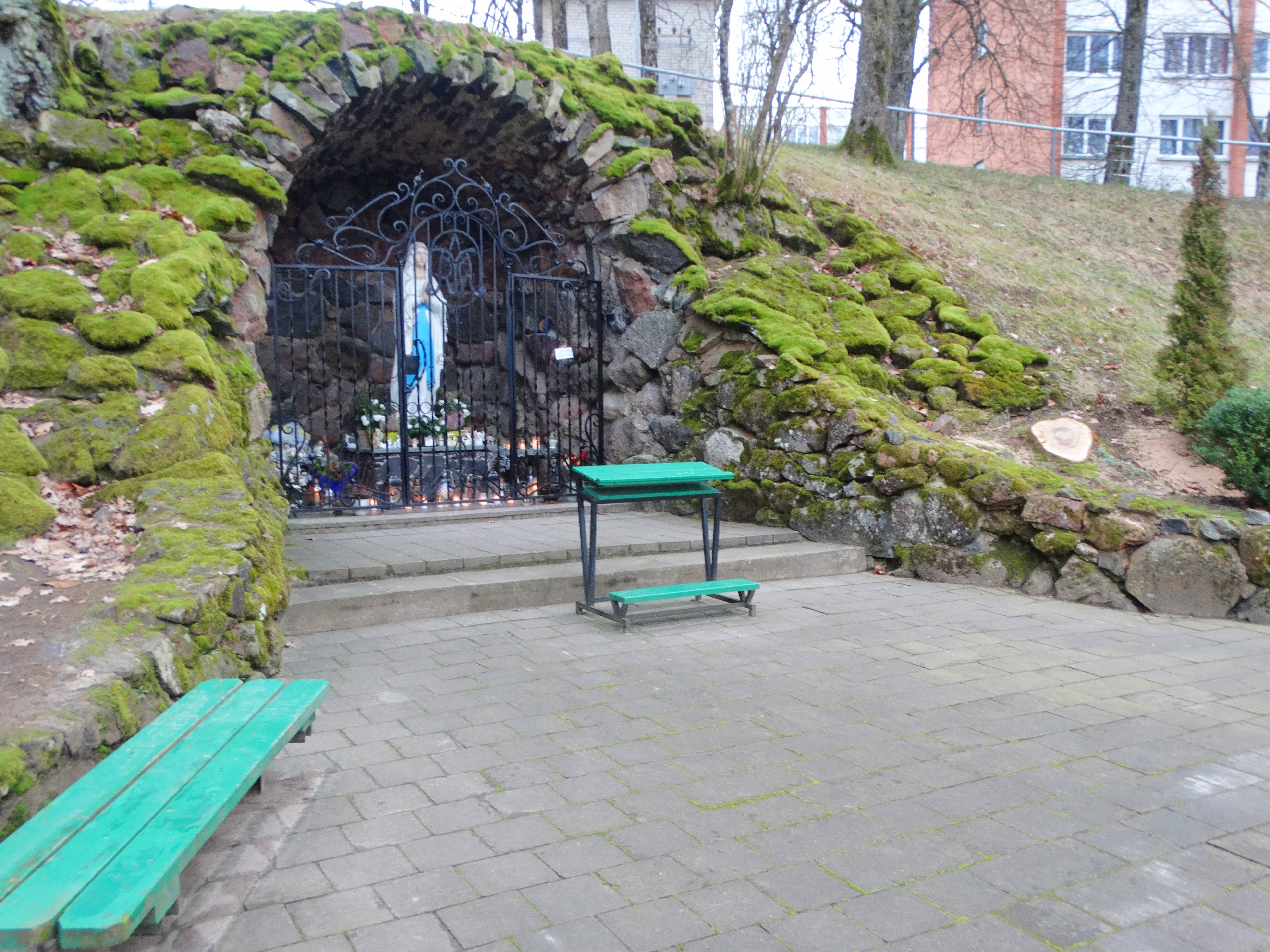 Lourdes in Plungė, Lithuania